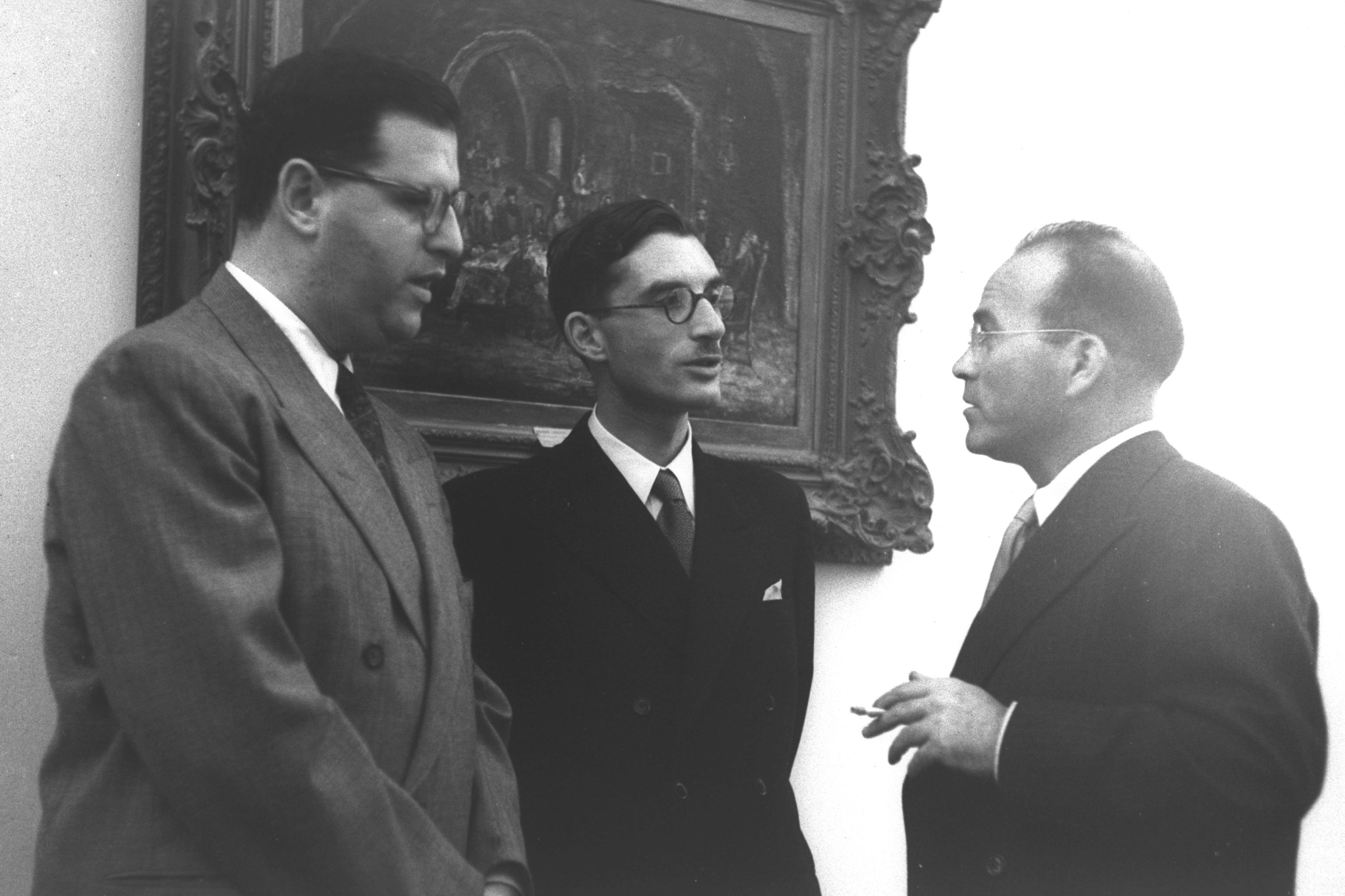 Foreign ministry officials from left Abba Eban, Shabtai Rosen and reuvenshiloah meeting in the pres.'s office in Hakirya in Tel Aviv.